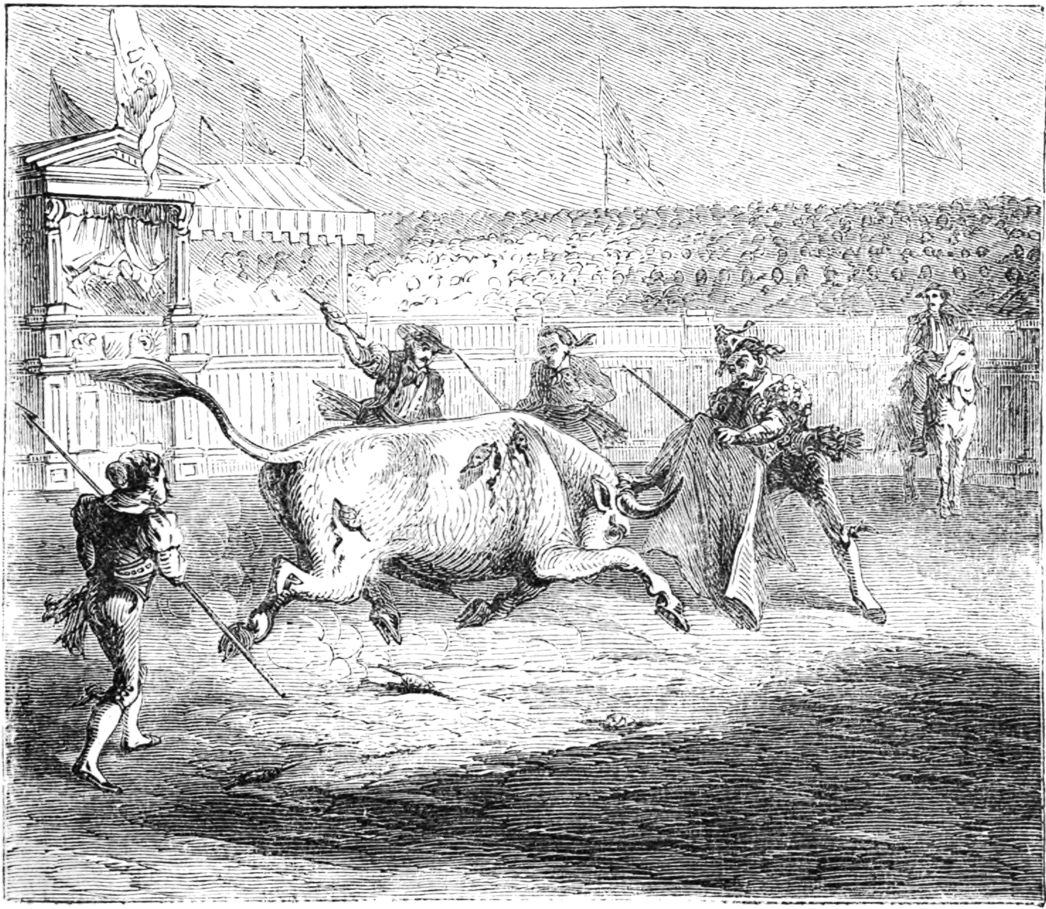 The Sunday bull fight